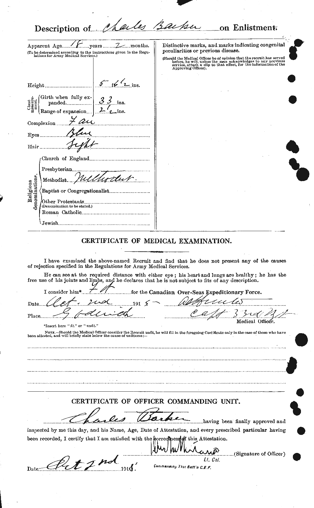 Enlistment form for a soldier in the 71st Battalion, CEF (Canadian Expeditionary Force), 1915. My Great-Uncle's enlistment papers. He lived in Southern Ontario and would see action at Arras, suffering a shrapnel wound on August 28, 1918. He returned home safely after the war. The named individual has long since passed away and releasing his personal information would not pose a problem at this point.